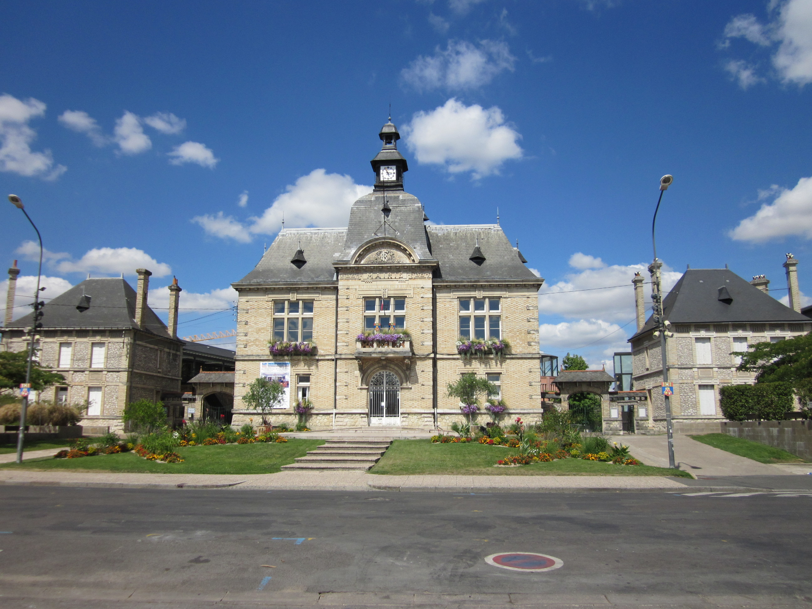 Saint-Pierre-des-Corps' city hall.